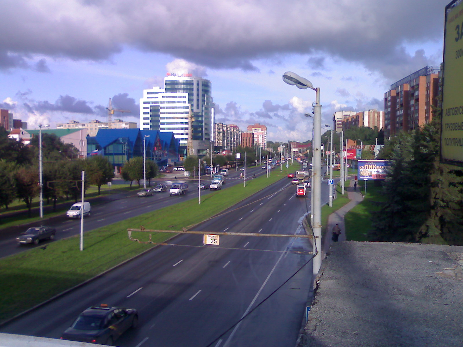 Moscow prospect, Kaliningrad, 2006.